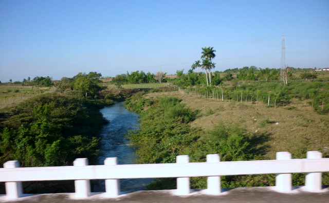 Mayabeque river